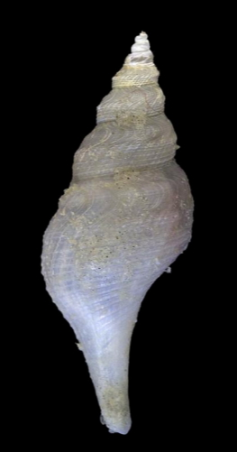 Aforia watsoni Kantor, Harasewych & Puillandre, 2016; family Cochlespiridae; specimen at the Smithsonian Institution